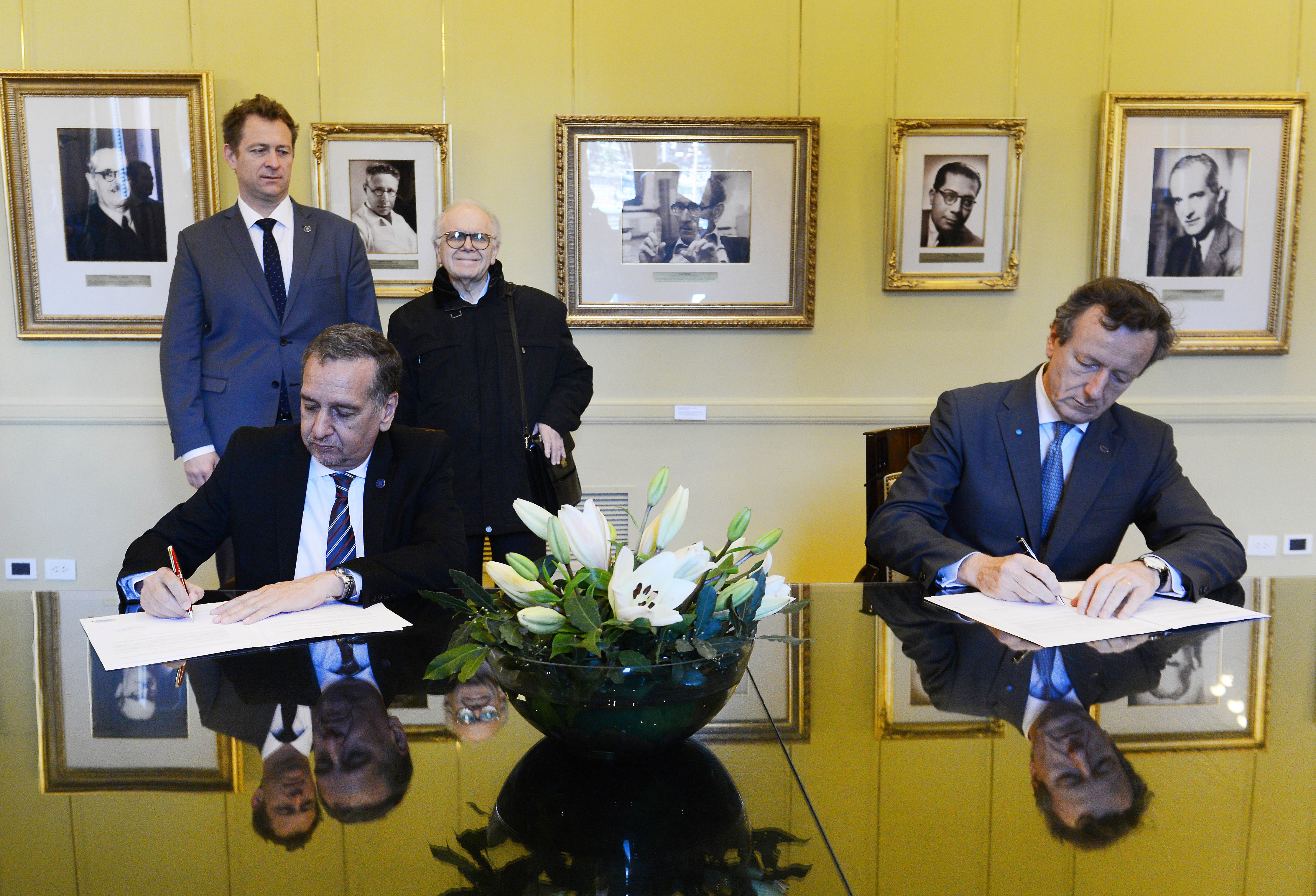 Lino Barañao, Conrado Varotto and Roberto Battiston sign an agreement on space cooperation.